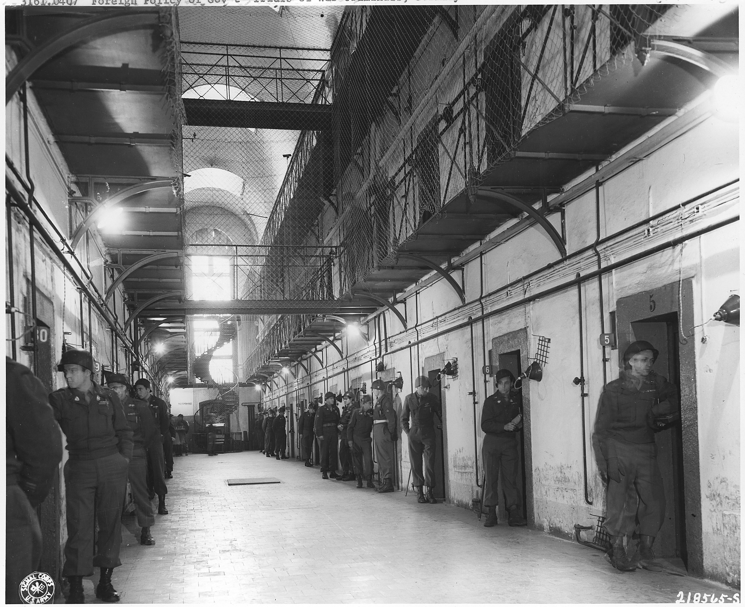 Scope and content: Main section of prisoners' call block in the Nuernberg jail. "Cells occupied by Goering and Hess are at extreme right. Each defendant is watched by an individual guard who is constantly posted at his door. 11/24/45.